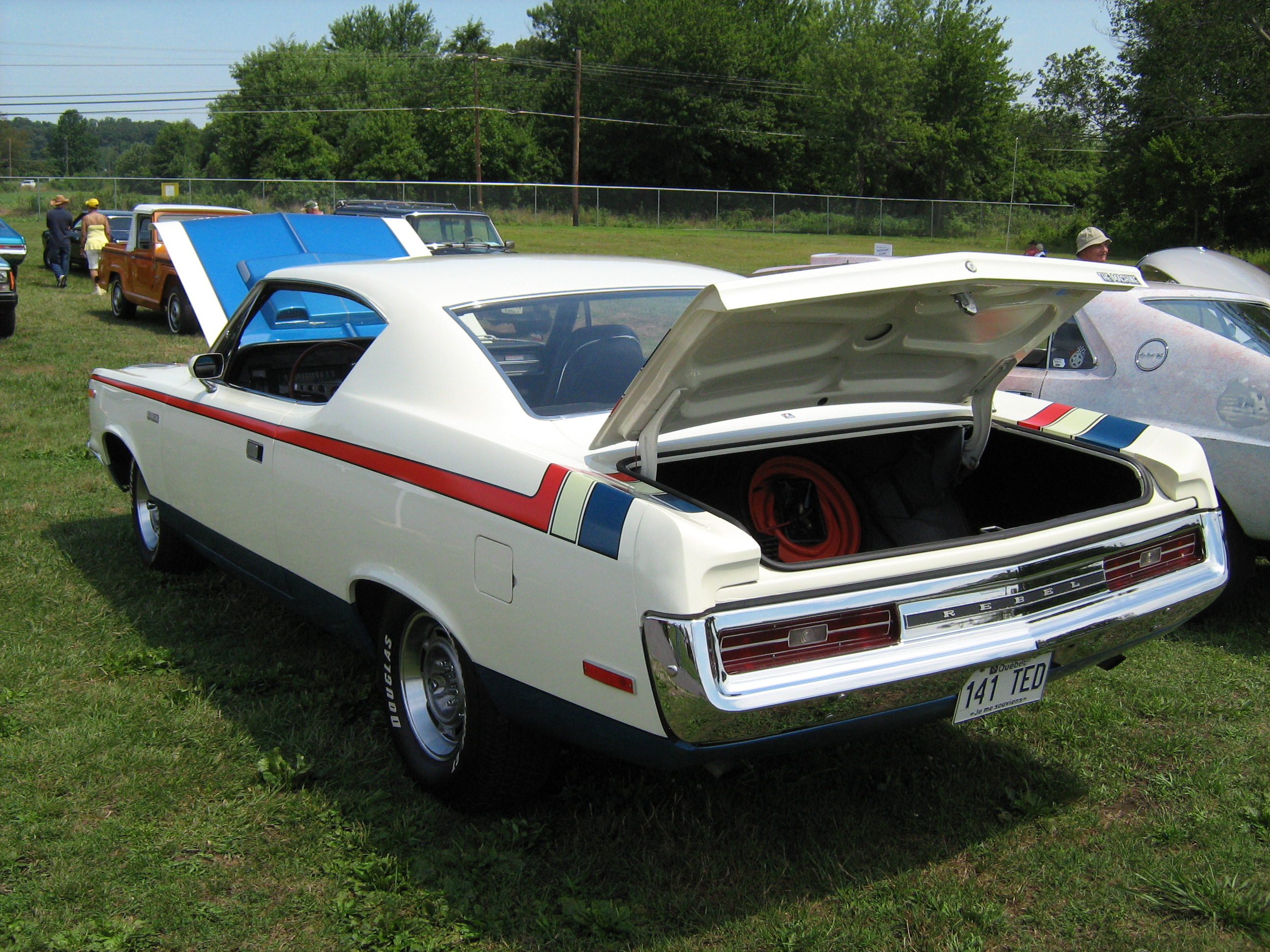 1970 "The Machine" - a special model of the AMC Rebel two-door hardtop by American Motors Corporation (AMC). This is a factory built Muscle Car with AMC's 390 cu in (6.4 L) V8 engine with 340 hp (254 kW) and 430 pound-feet of torque @ 3600 rpm. This is one of the original production versions in white with the "glow in the dark" red-white-blue color stripes and standard hood scoop and rocker panels finished in "Electric Blue." Picture taken at the AMC day at the Cecil County Dragstrip in Maryland.